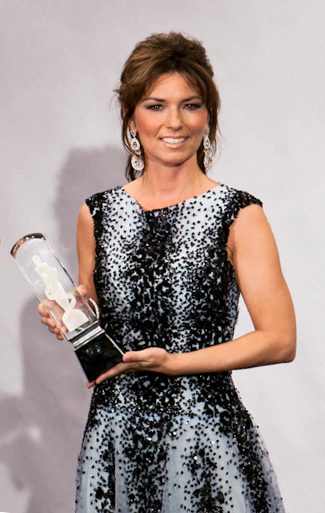 Shania Twain at the 2011 Juno Awards in St. Lawrence Market, Toronto, Ontario, Canada in March 2011.